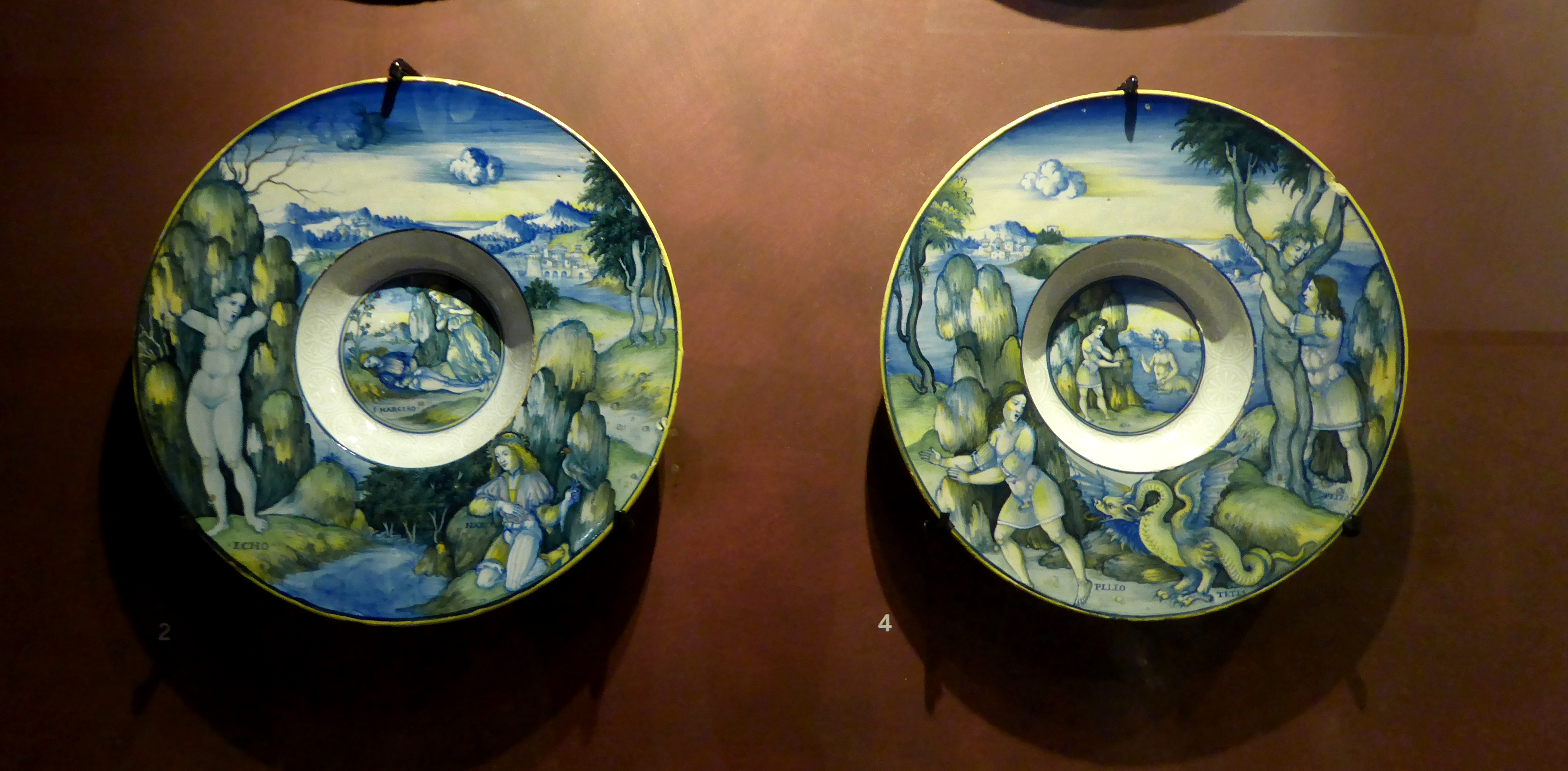 Two of the decorated plates that form part of Nicola da Urbino's "Correr Service". Located in the Museo Correr, a museum in San Marco, Venice.